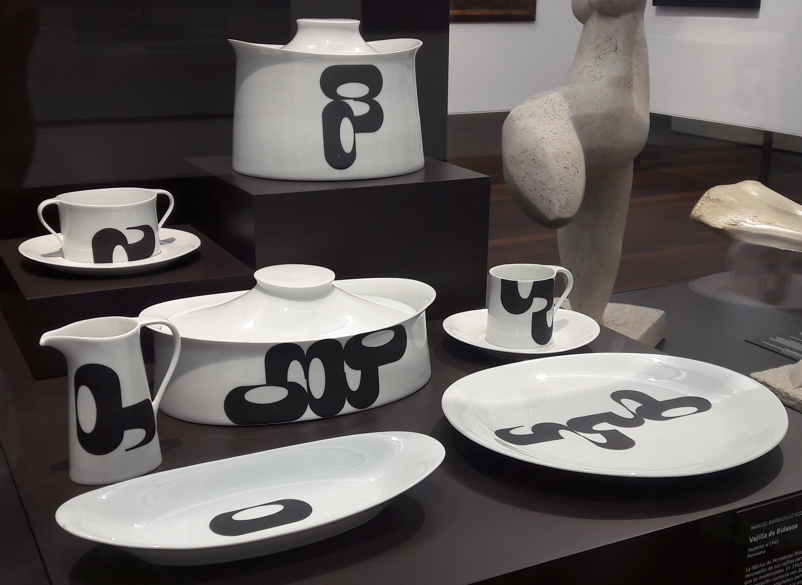 Bidasoa dishware, from 1962, porcelain. Design by Manuel Barbadillo. Museo de Málaga, Spain.